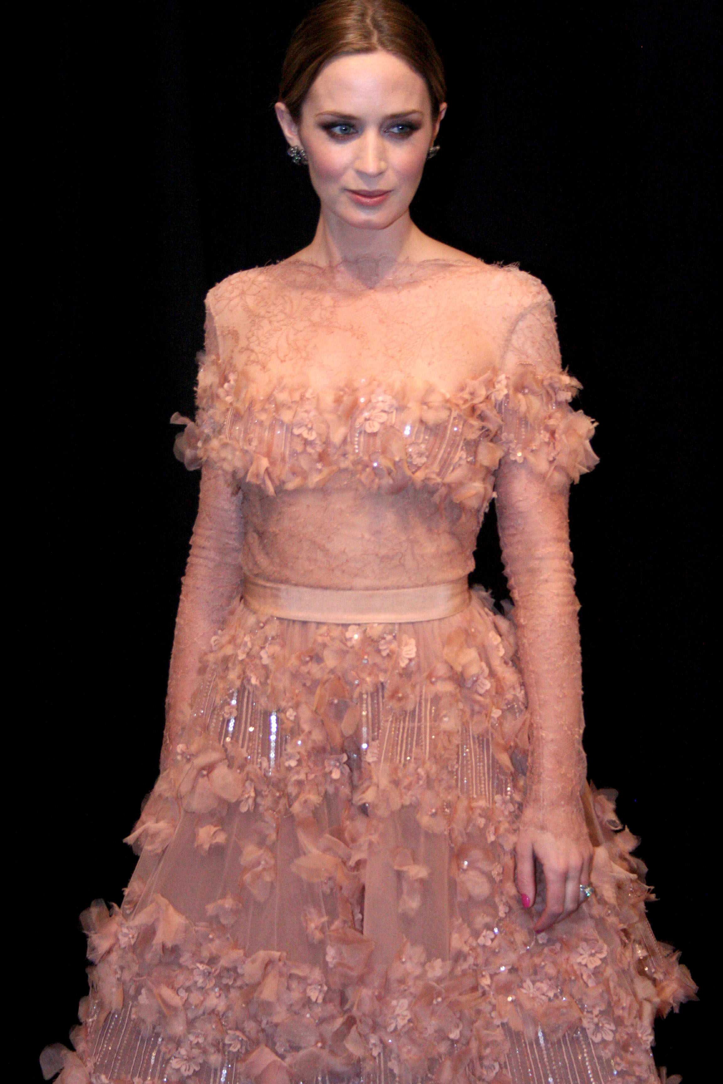 Adjustment Bureau Premiere Ziegfeld Theater, New York City February 15, 2011